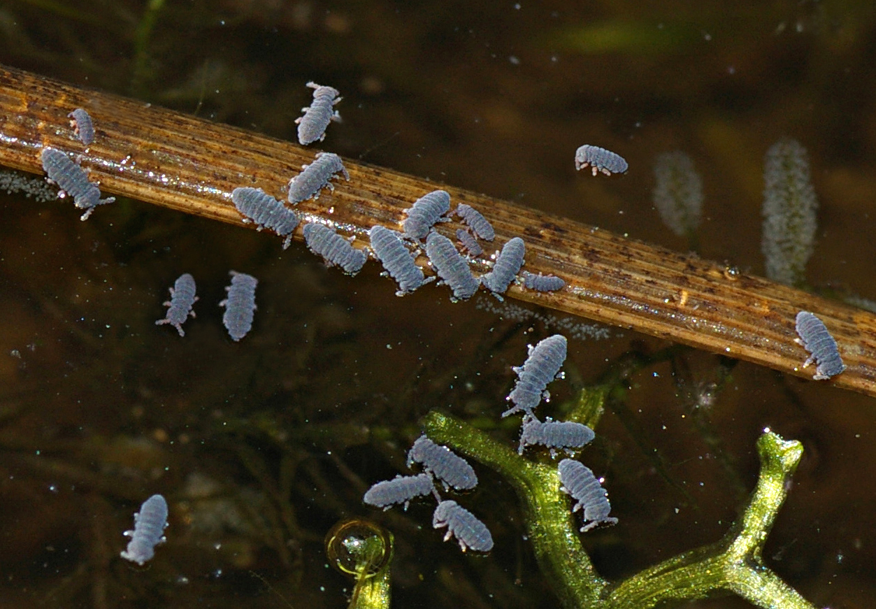 Several specimens of springtails, Podura aquatica, on the surface of a pool. These animals are only about 1 mm long.